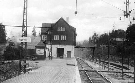 Høvik Station during the 1920s (building completed 1922)